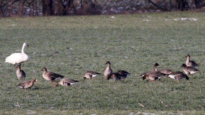 Taiga Bean Geese Anser fabalis, together with two Greater White-fronted Geese Anser albifrons and a Whooper Swan Cygnus cygnus on the left side. Rheindelta, Hoechster Ried, Vorarlberg, Austria.